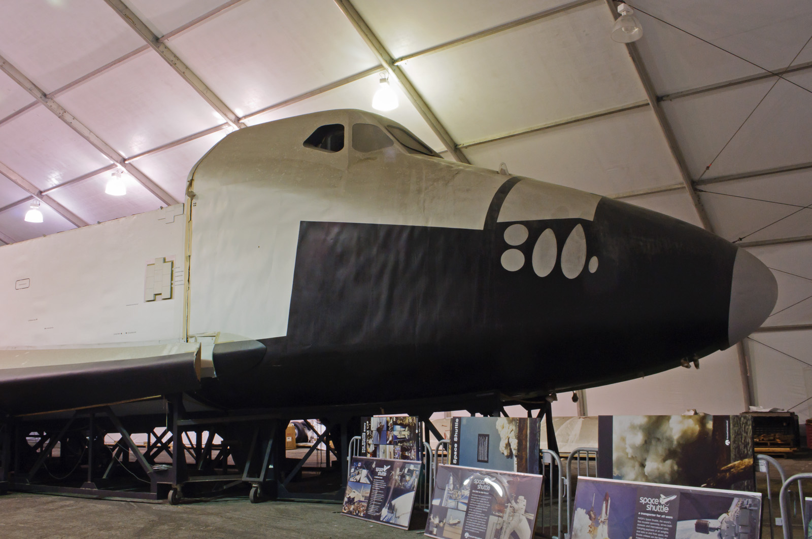 The Inspiration is a mockup Space Shuttle located in Downey, California, on the site where the Shuttle's crew compartment and aft fuselage were built. In 1972, Rockwell North American built this mockup of the proposed Space Shuttle Orbiter to present to NASA. Once the contract was awarded, the mockup was used to finalize the dimensions and the layout of the orbiter and its components. The Inspiration got the Shuttle project started, and was the final step before construction of the first orbiter, the Enterprise. Long abandoned inside a warehouse after the Downey plant closed in 1999, Inspiration was saved during the site's 2012 demolition, and placed temporarily in a tent next to the Columbia Memorial Space Science Learning Center on site. It went on public view for the first time ever, and was given the name Inspiration by Downey City Council. In the foreground are some 1980s promotional materials from Rockwell that detail the then-current accomplishments of the Shuttle and its proposed future uses. A key plan was to use the Shuttle to construct, then service, Space Station Freedom. With the end of the Cold War, NASA scrapped plans for Freedom, instead teaming up with the Russians to have the Shuttle visit Mir, then using elements already built for Freedom and Mir 2, plus other new elements from the two countries plus Europe and Japan, to build the International Space Station.